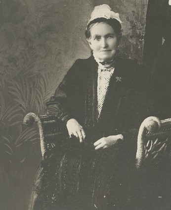 Portrait of Catherine Edith Macauley Martin.